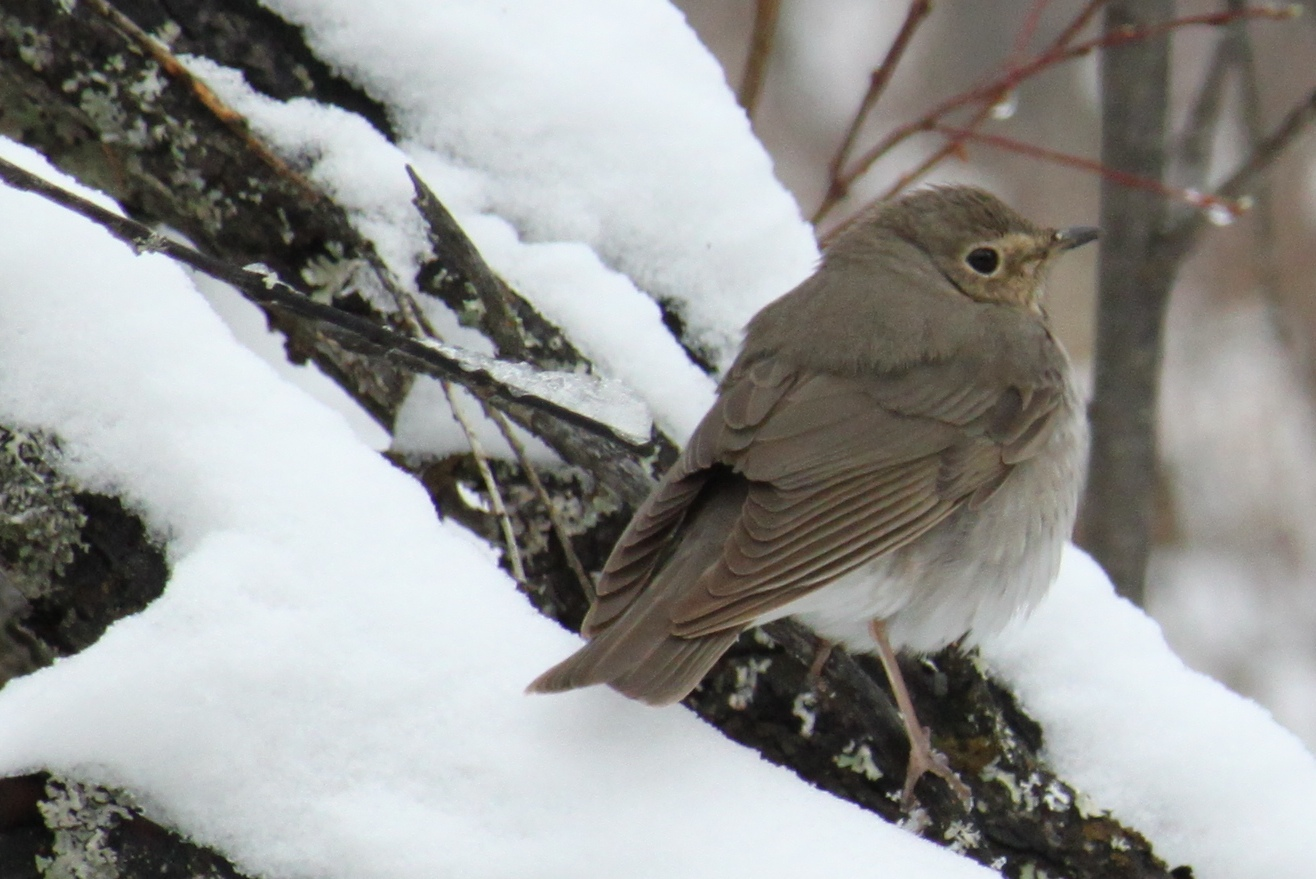 Swainson's Thrush Catharus ustulatus, Charlie Lake, British Columbia, Canada.